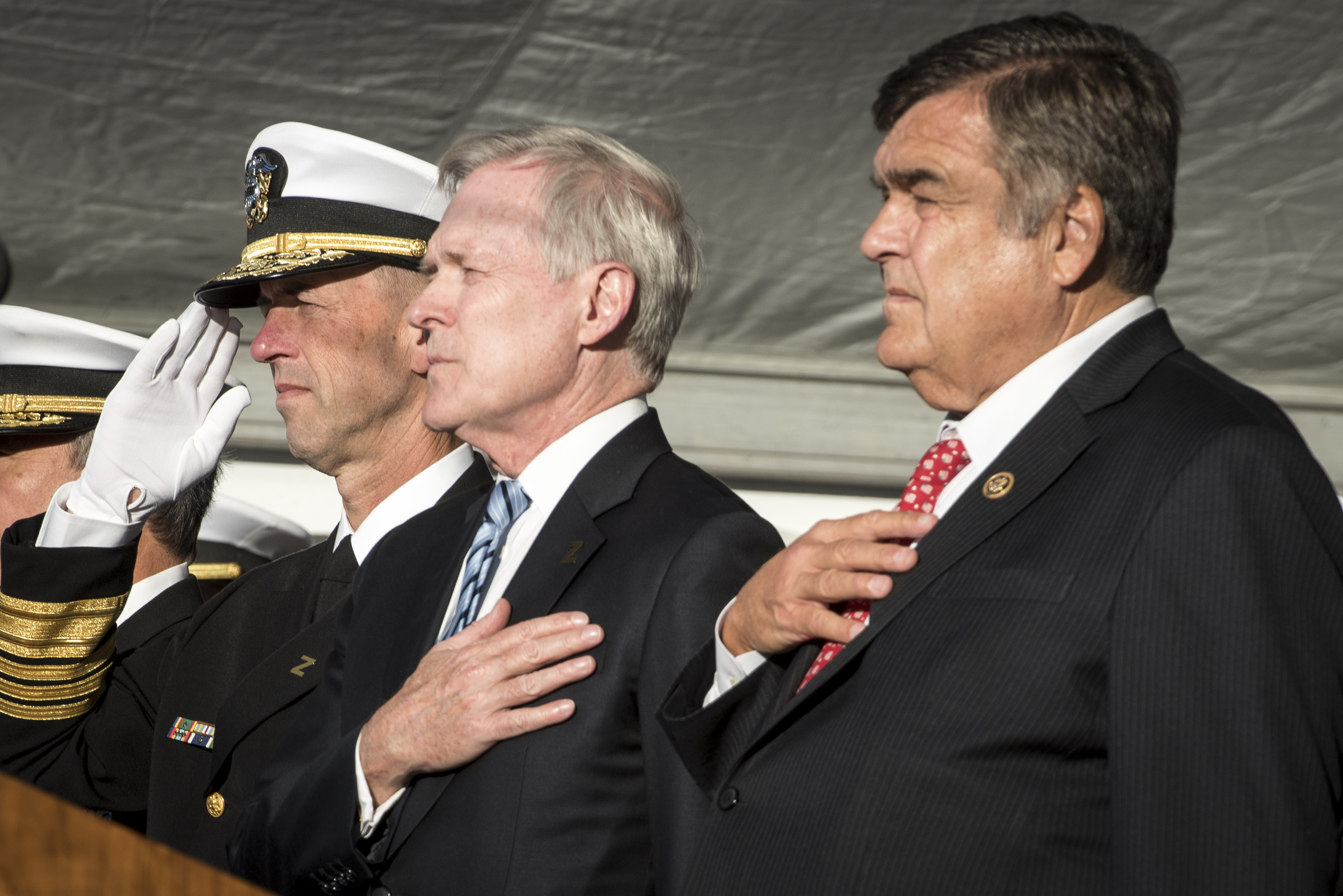 161015-N-AT895-028 BALTIMORE (Oct. 16, 2016) (Left to right) Chief of Naval Operations (CNO) Adm. John Richardson, Secretary of the Navy (SECNAV) Ray Mabus and U.S. Rep. Dutch Ruppersberger of Maryland render honors for the national anthem during the commissioning ceremony for the Navy's newest and most technologically advanced warship, USS Zumwalt (DDG 1000). (U.S. Navy photo by Petty Officer 1st Class Nathan Laird/Released)